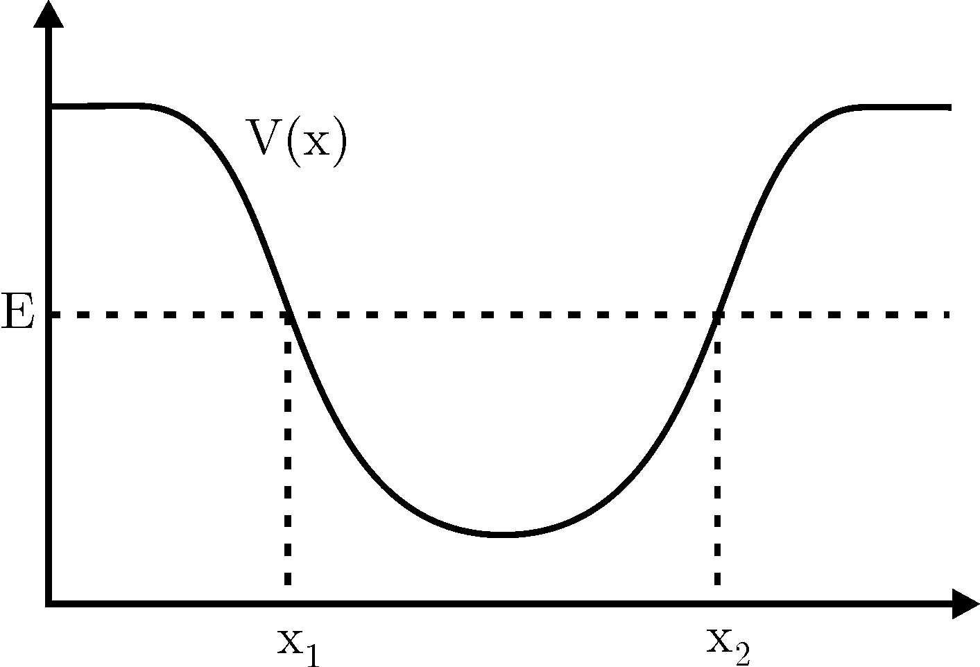 a generic potential well